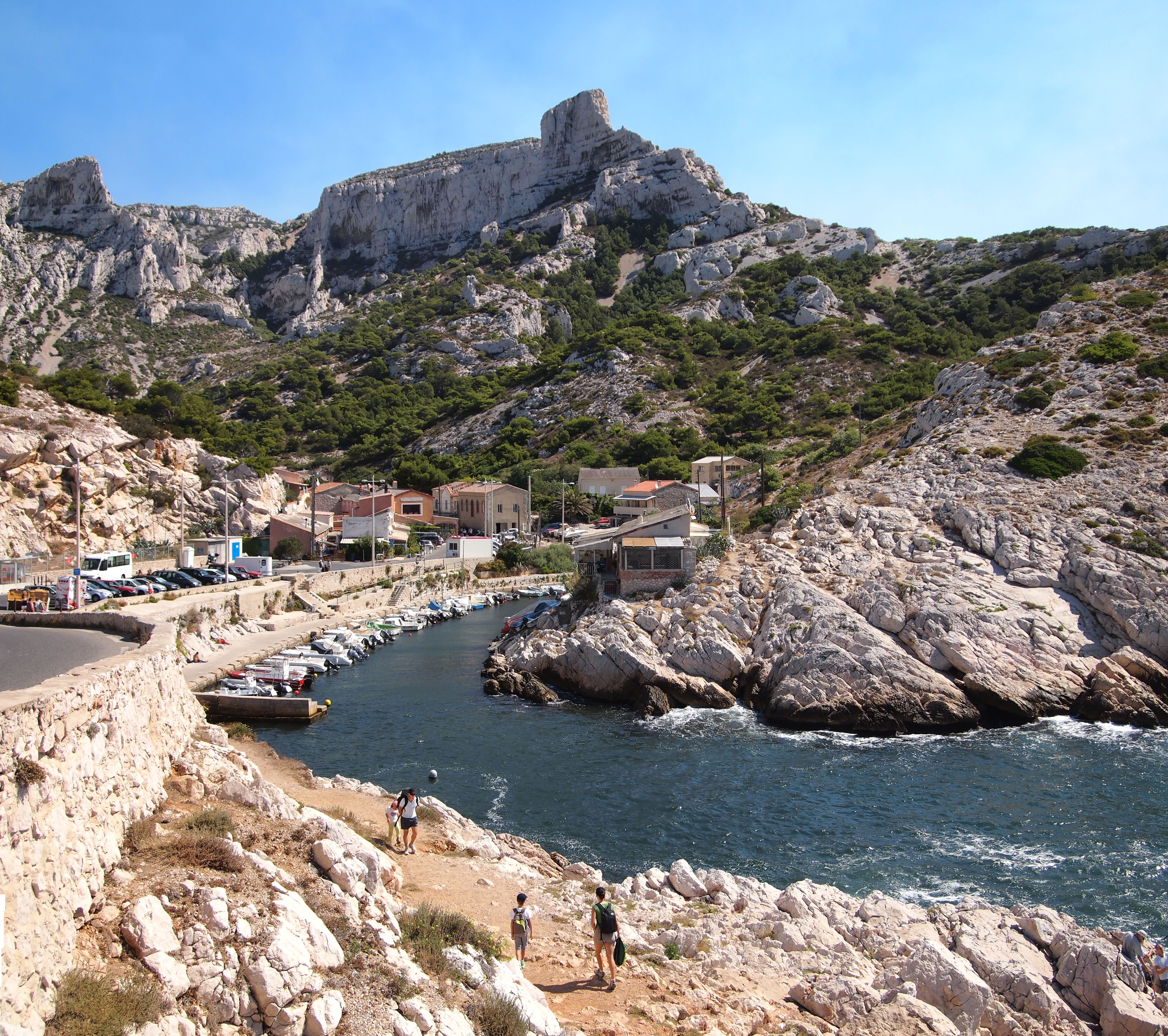 Callelongue port in Marseille.